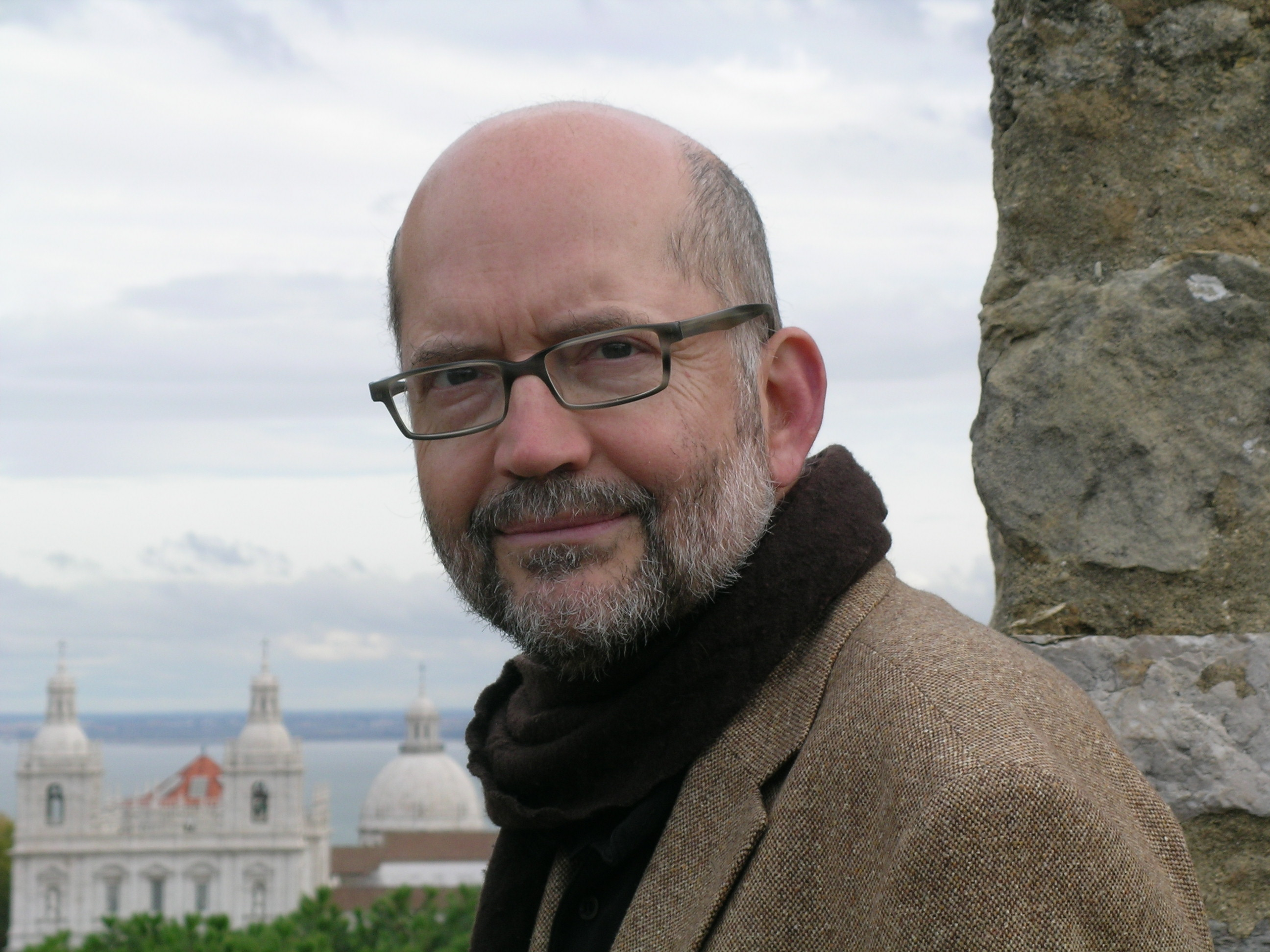 Ralf Peter Märtin, German historian, writer, and publisher